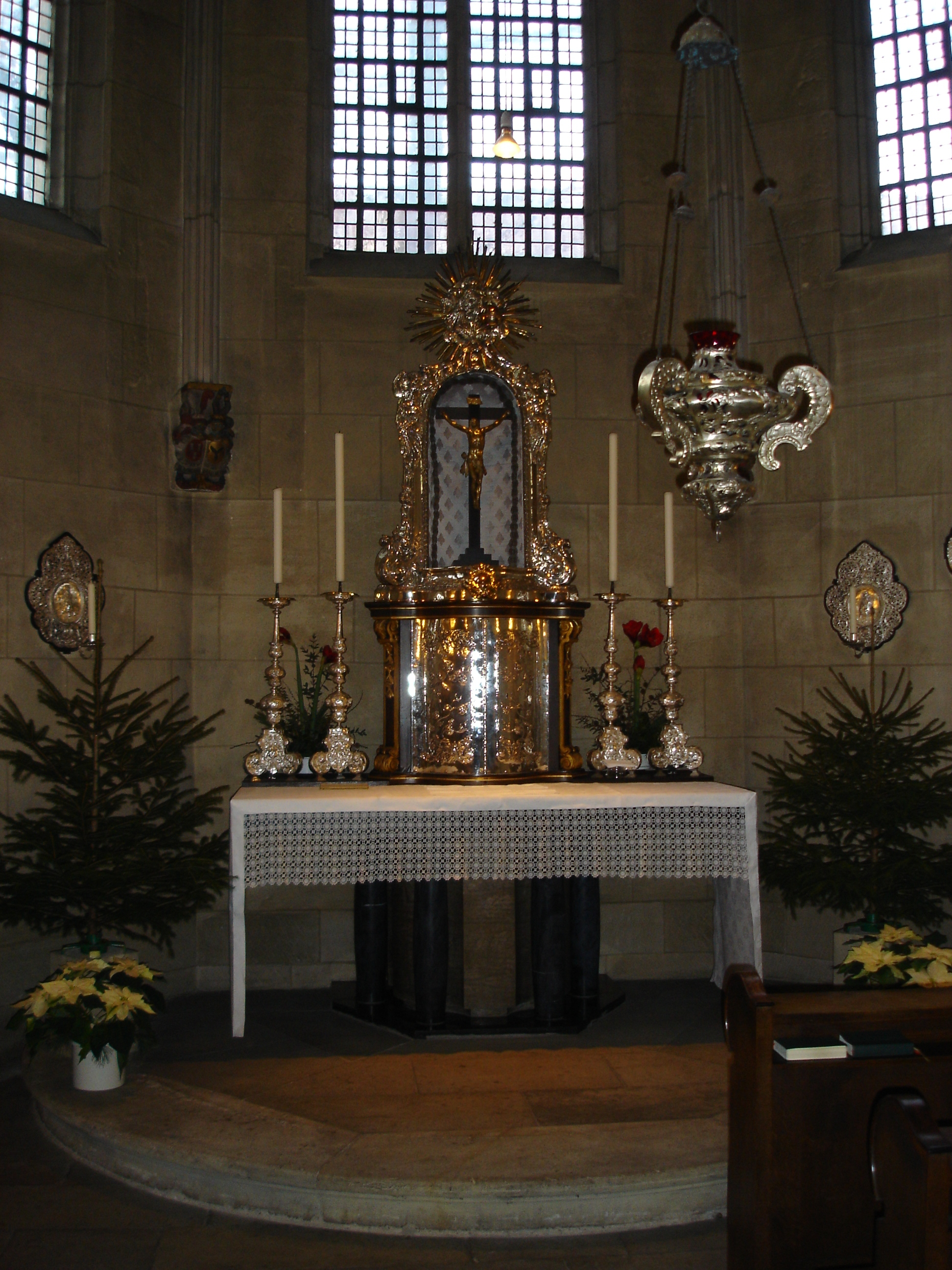 "Sakramentskapelle" of the St.-Pauls-Cathedral in Münster, Westphalia, Germany